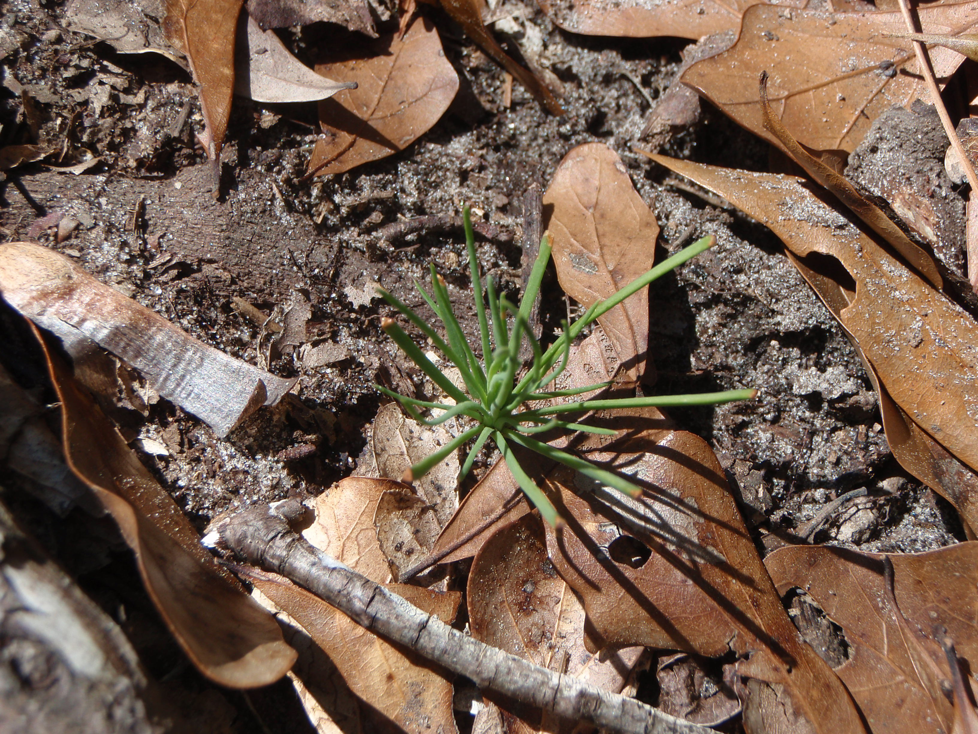 Pinus palustris seedling. Lowndes County, Georgia, USA.